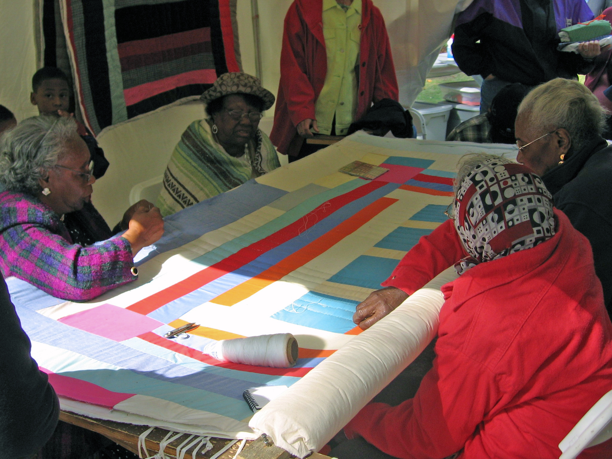 Women from Gee's Bend work on a quilt during the 2005 ONB Magic City Art Connection in Birmingham, Alabama's Linn Park.Gee's Bend quilting bee